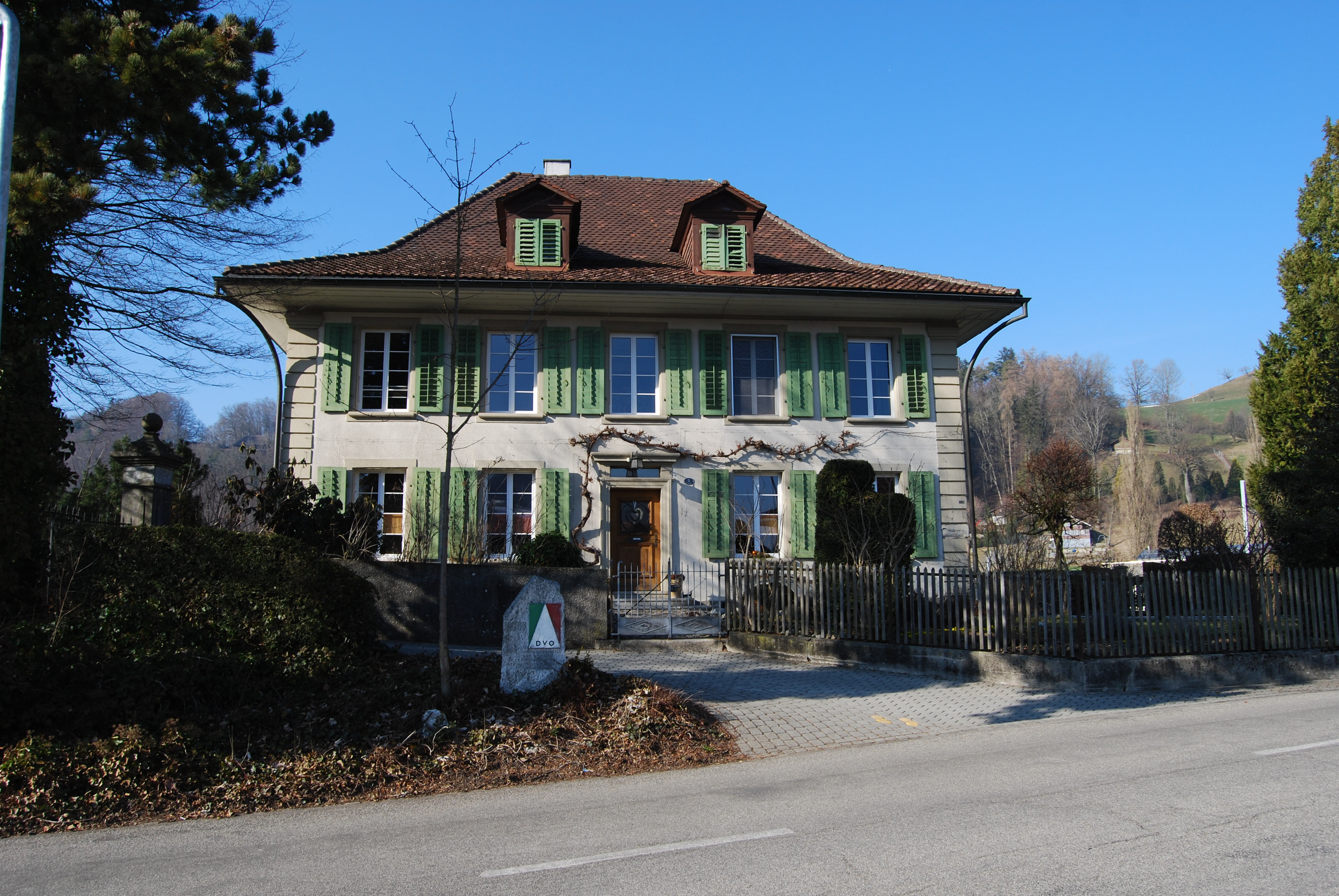 Rohrbach, canton of Bern, SwitzerlandEsperanto: Rohrbach, Kantono Berno, Svislando